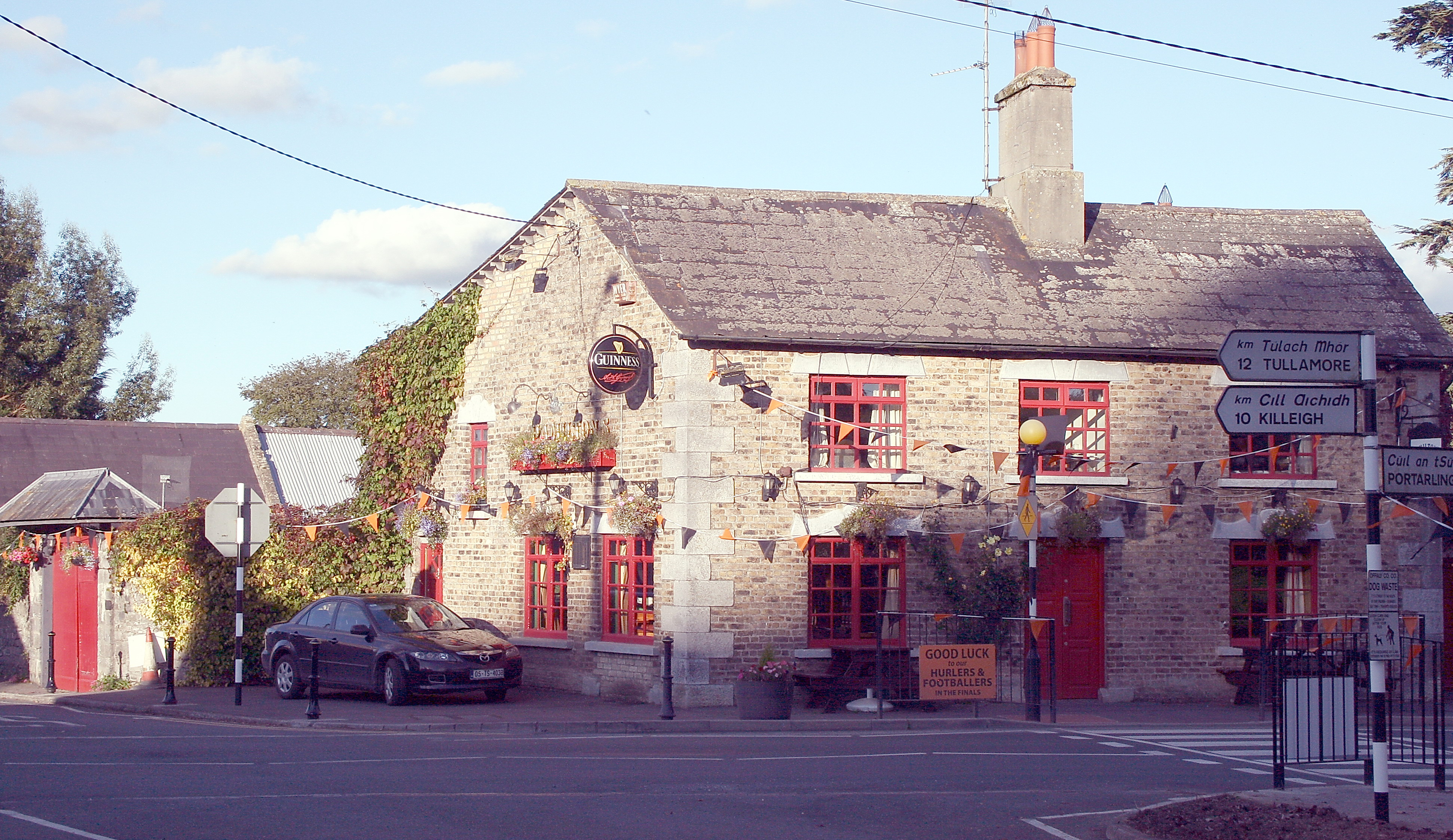 Geashill, County Offaly, near to Geashill, Curragh, Ballykean and Ballyduff, Offaly, Ireland. On the R420.